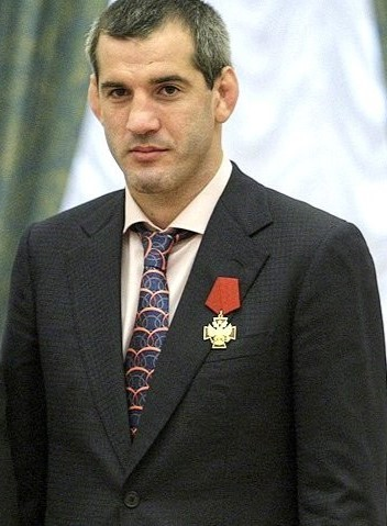 Buwaisar Saytiev in Kremlin